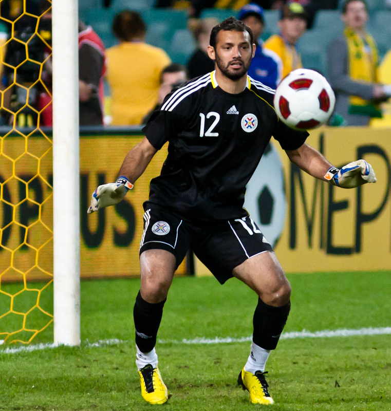 Diego Berreto playing for the Paraguay national football team in a friendly match against Australia at the Sydney Football Stadium.